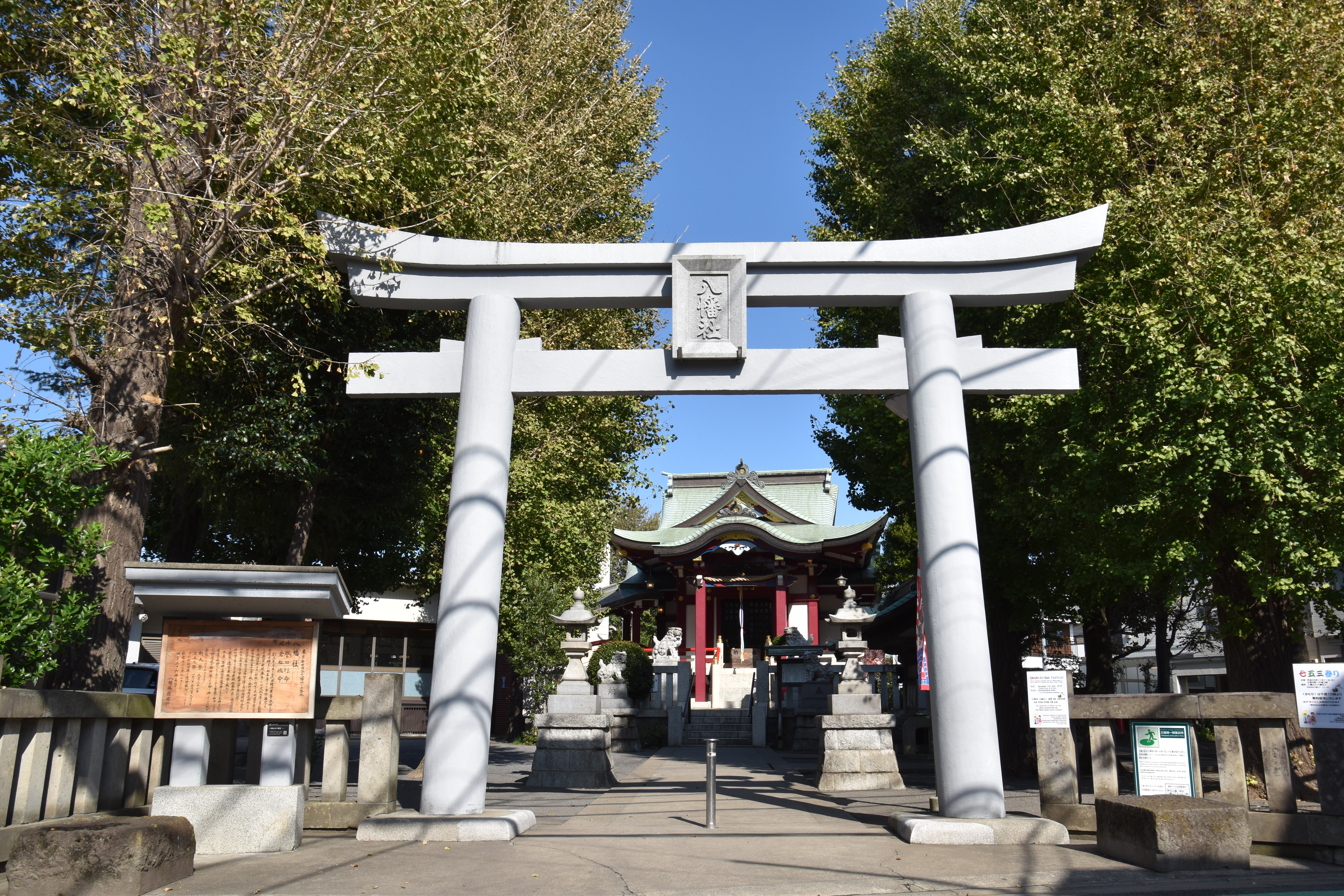 Hachiman Shrine in Hachimanyama, Setagaya Ward, Tokyo, Japan)